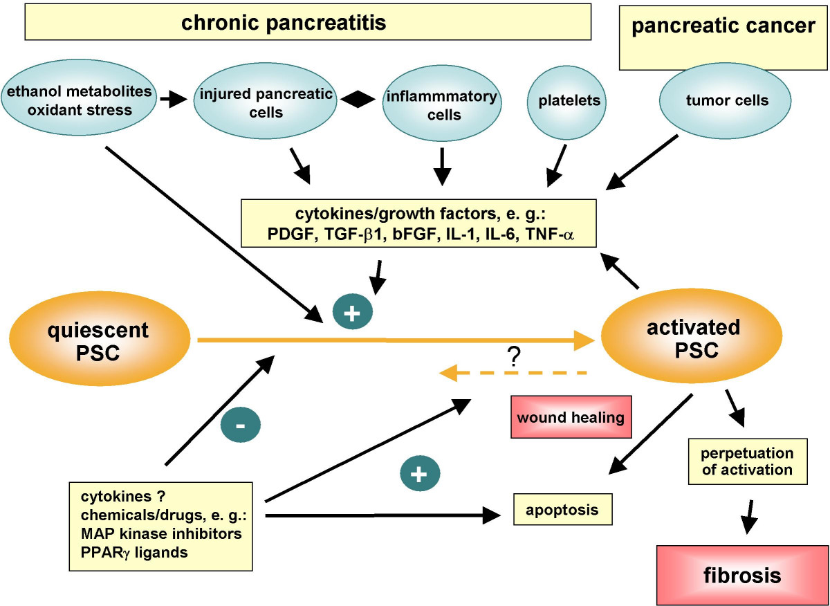 Pancreatic stellate cell activation in chronic pancreatitis and pancreatic cancer. Pancreatic stellate cells are activated by profibrogenic mediators, such as ethanol metabolites and cytokines/growth factors. Perpetuation of stellate cell activation under persisting pathological conditions results in pancreatic fibrosis. Jaster Molecular Cancer 2004 3:26